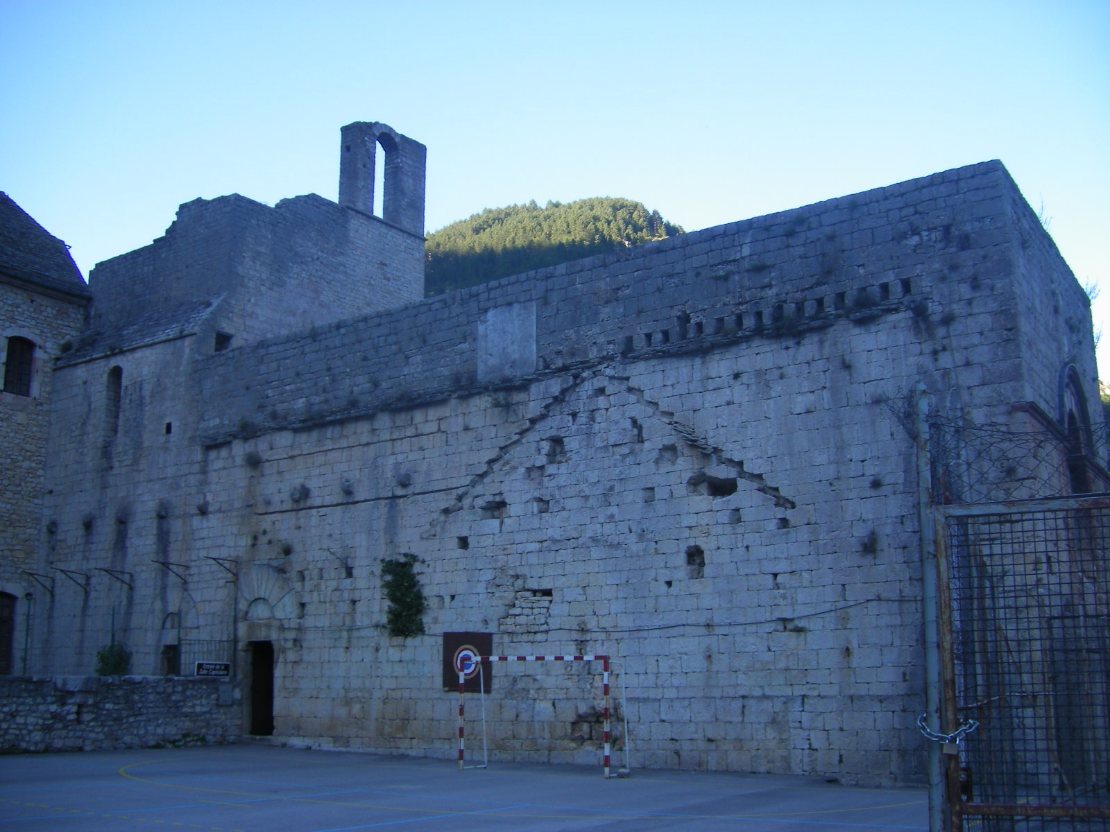 Sainte-Enimie, Lozère, France .